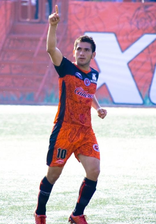 Raul Enriquez at the Caliente stadium